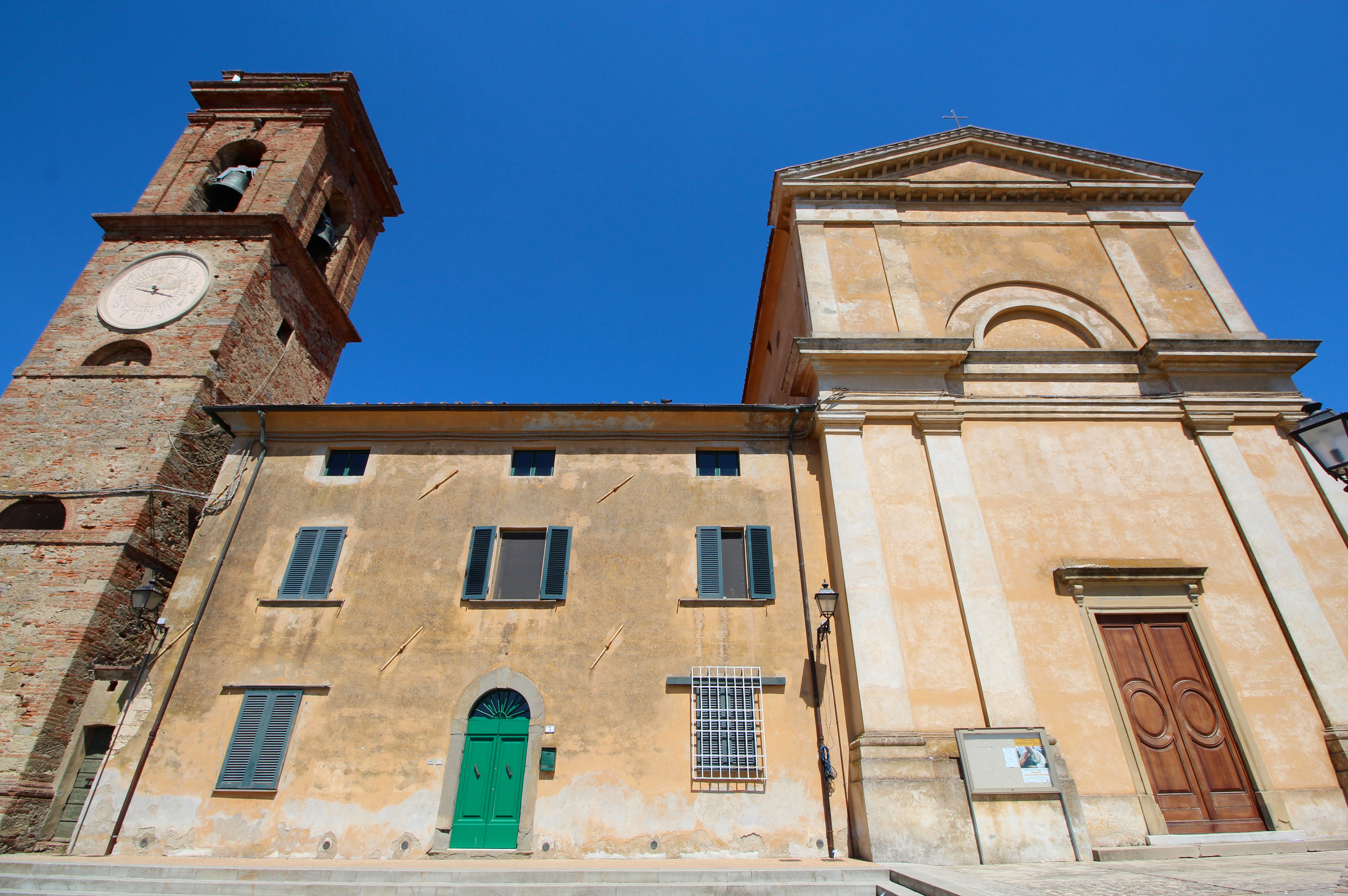 Church Santi Bartolomeo e Cristoforo, Lorenzana, hamlet of Crespina Lorenzana, Province of Pisa, Tuscany, Italy